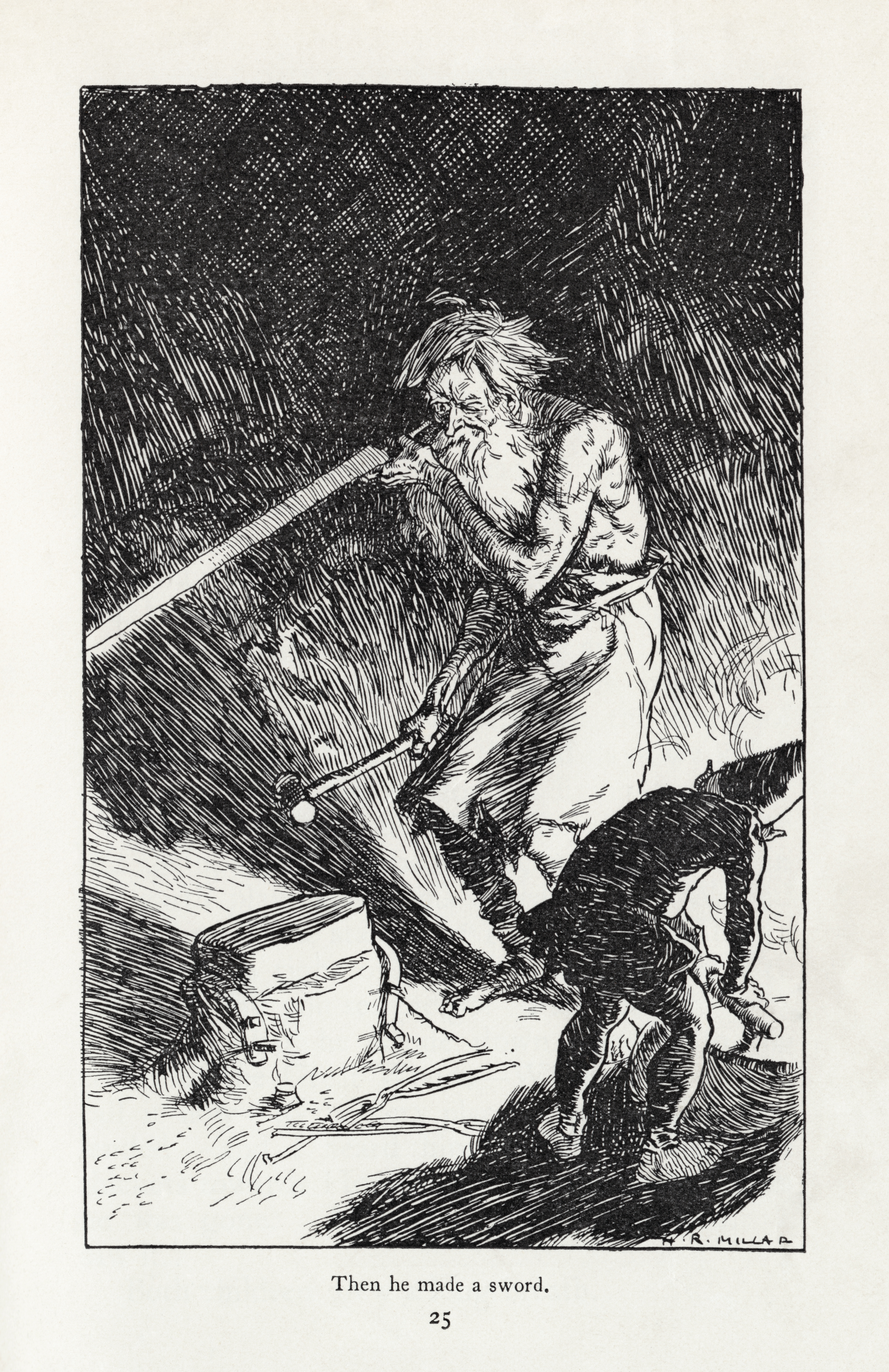 H. R. Millar's 2nd illustration to the original edition of Rudyard Kipling's Puck of Pook's Hill, from the chapter Weyland's Sword, entitled, "Then he made a sword".